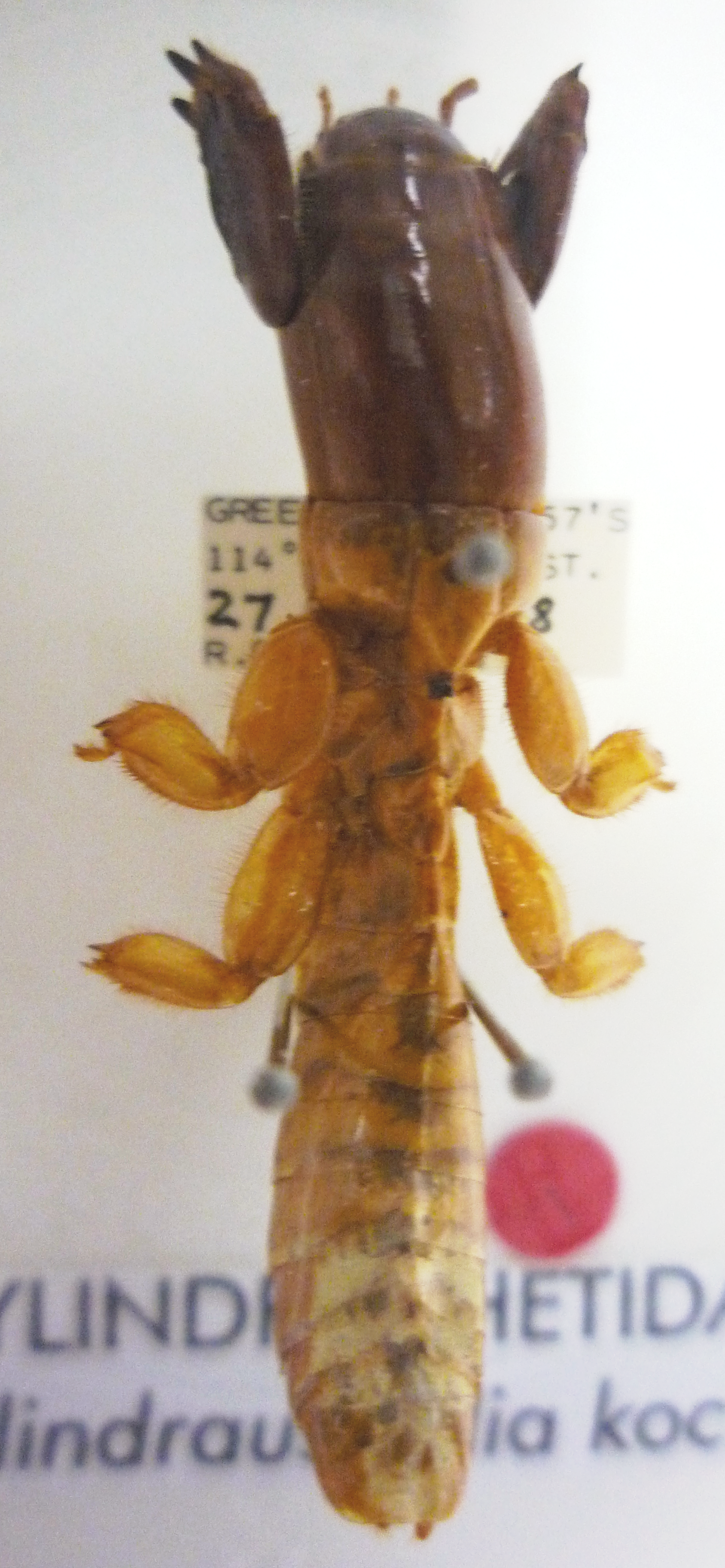 Sandgroper (insect) - specimen of Western Australian Museum